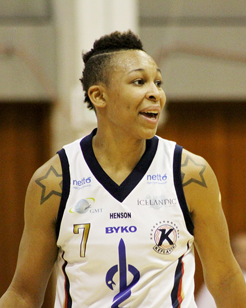 Carmen Tyson-Thomas of Keflavík during the 2015 Icelandic Basketball Cup Finals.